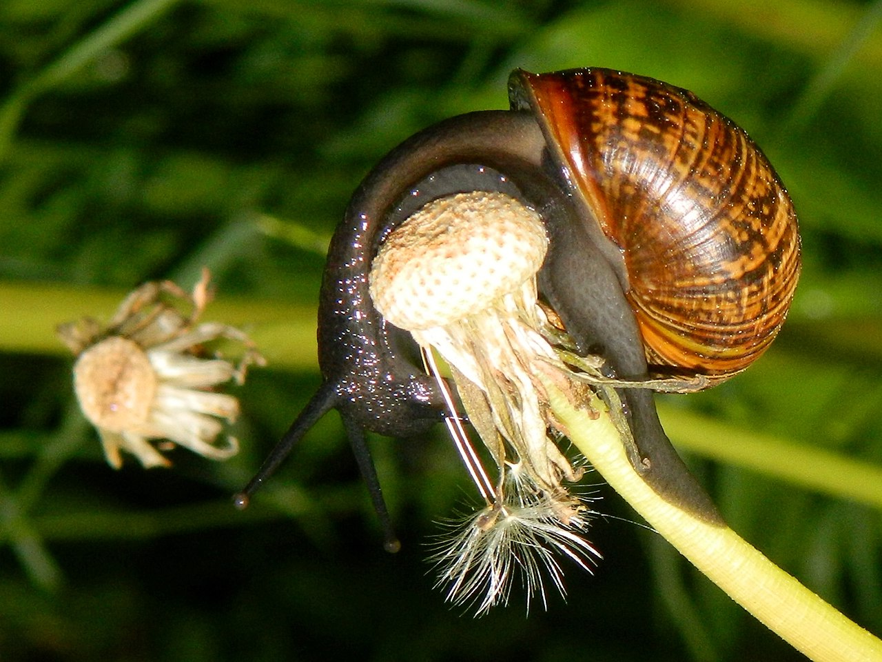 Snail eating a dandelion flower